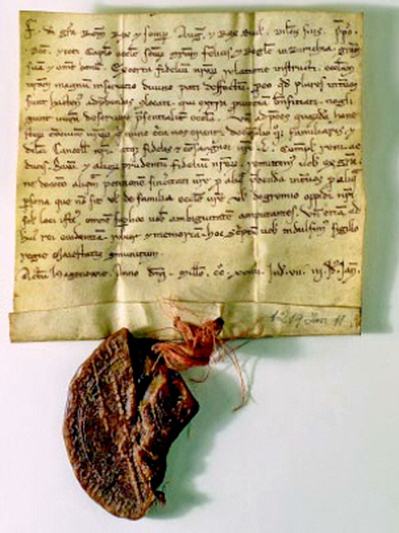 Zürich : 'Königsurkunde' (1219) by Frederick II, Holy Roman Emperor